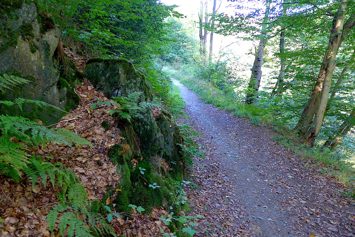 "Blade track" - the tourist marked route around the German city of Solingen (Northern Rhine-Westphalia). Second stage: Kohlfurth - Unterburg, 8,5 km.